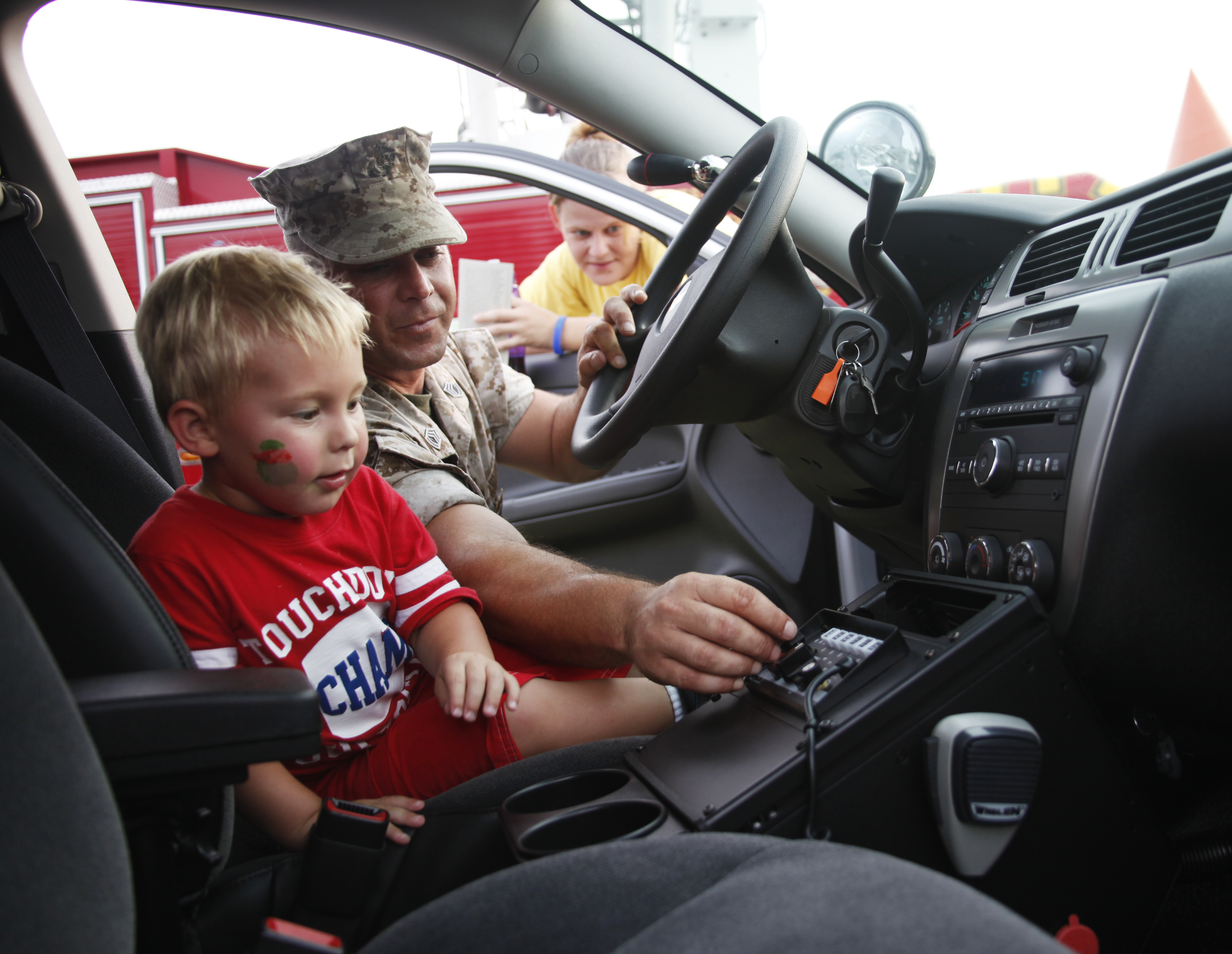 Gunnery Sgt. Shawn M. Ohle, Marine Corps Air Station Cherry Point, N.C.’s provost marshals office, shows Jordan Nelson, 3, the ins and outs of a military police car at Havelock’s national night out, Aug. 2. Dozens of Marines from Cherry Point volunteered for the event, providing bounce houses, military working dogs and a walkthrough of a search and rescue helicopter.